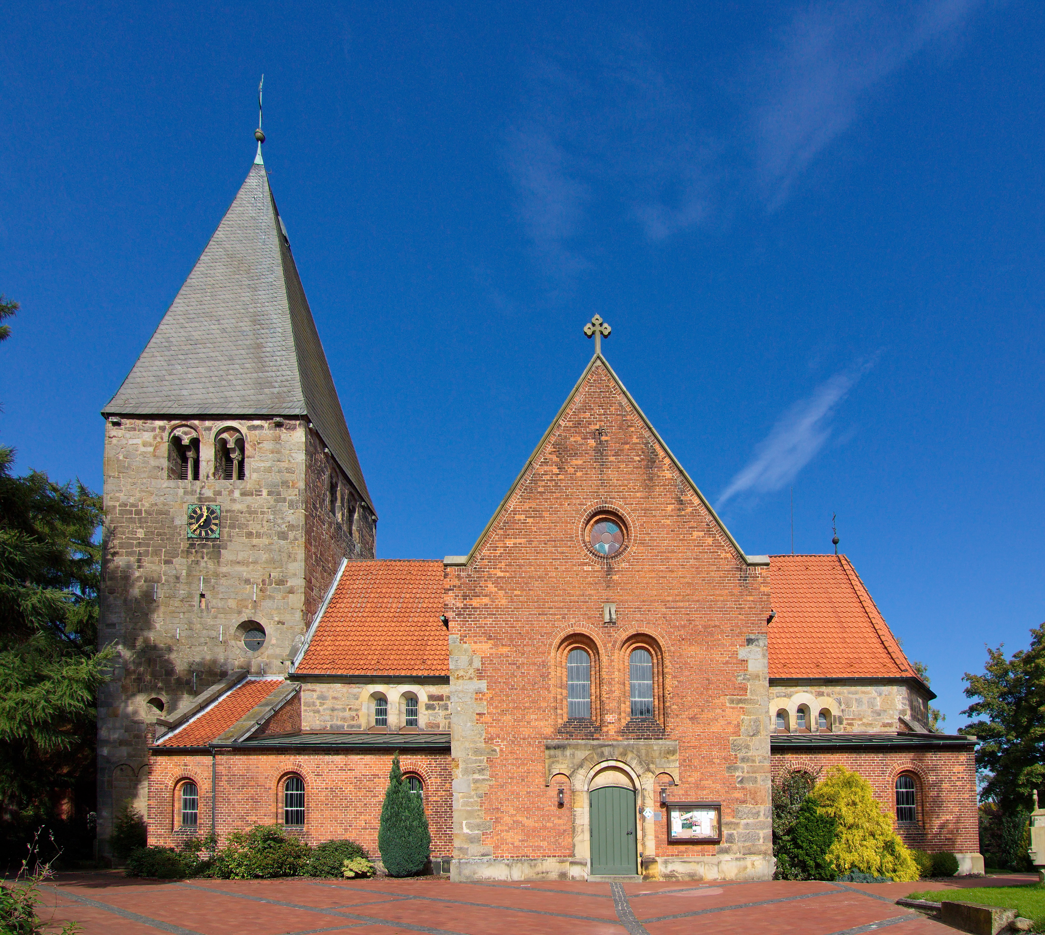 St. Clemens Romanus Kirche in Marklohe, Niedersachsen, Deutschland